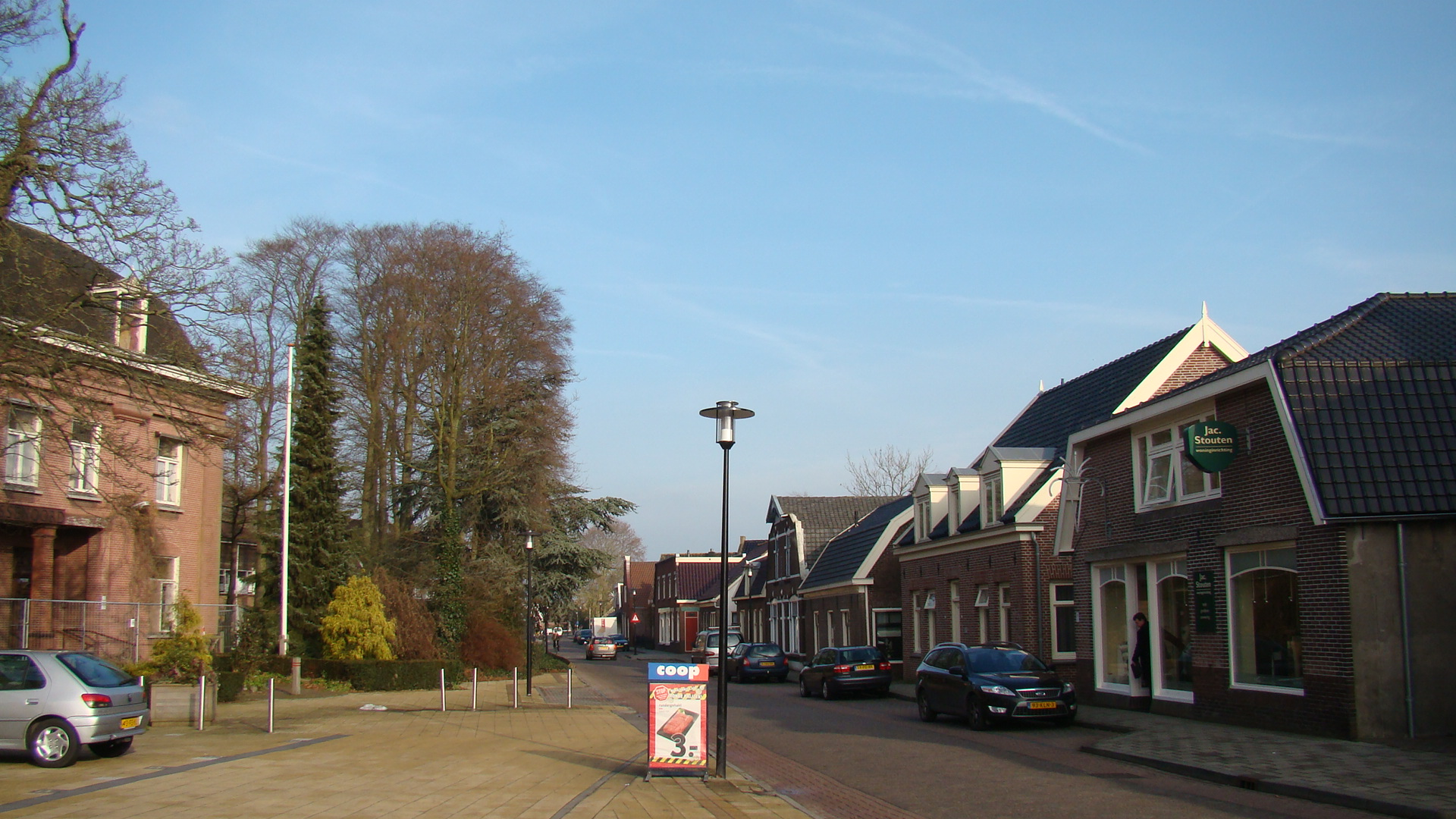 Dorpstraat at Nieuwveen, Netherlands